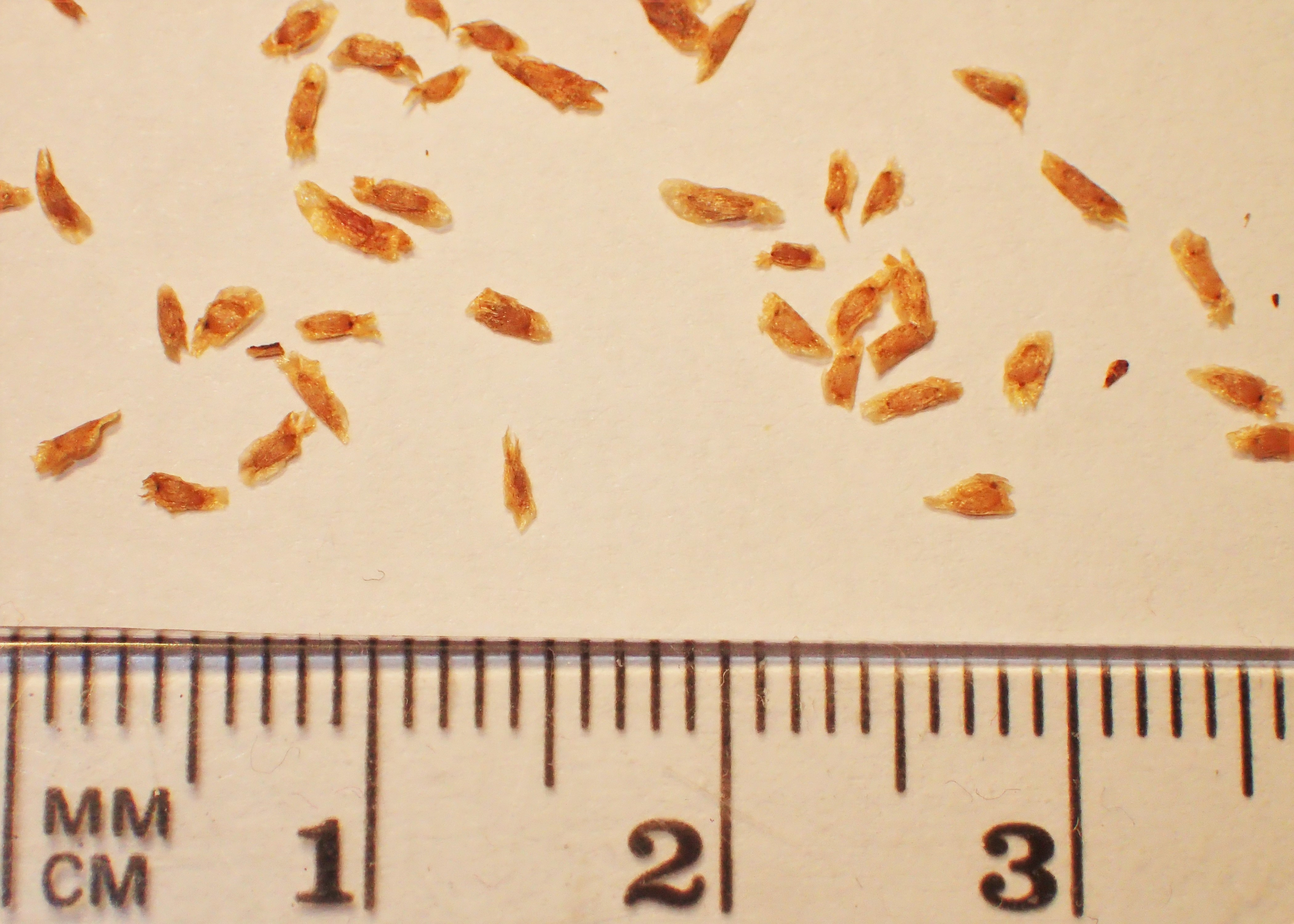 Rhododendron luteum seeds. Plants cultivated in Szczecin, NW Poland